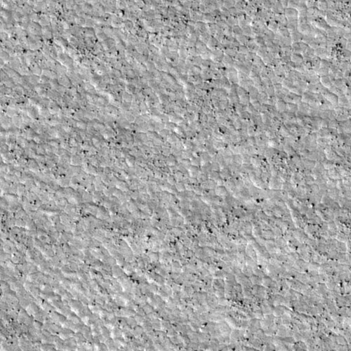 A HiRISE photo of part of the Martian north polar region intended as the landing zone for the Phoenix spacecraft (region "D"). The boulders in this image do represent some hazard to the spacecraft, but they are relatively small and cover a relatively small fraction of the total ground area, mitigating the threat. This image is shown at the full HiRISE resolution of 25 centimeters per pixel.